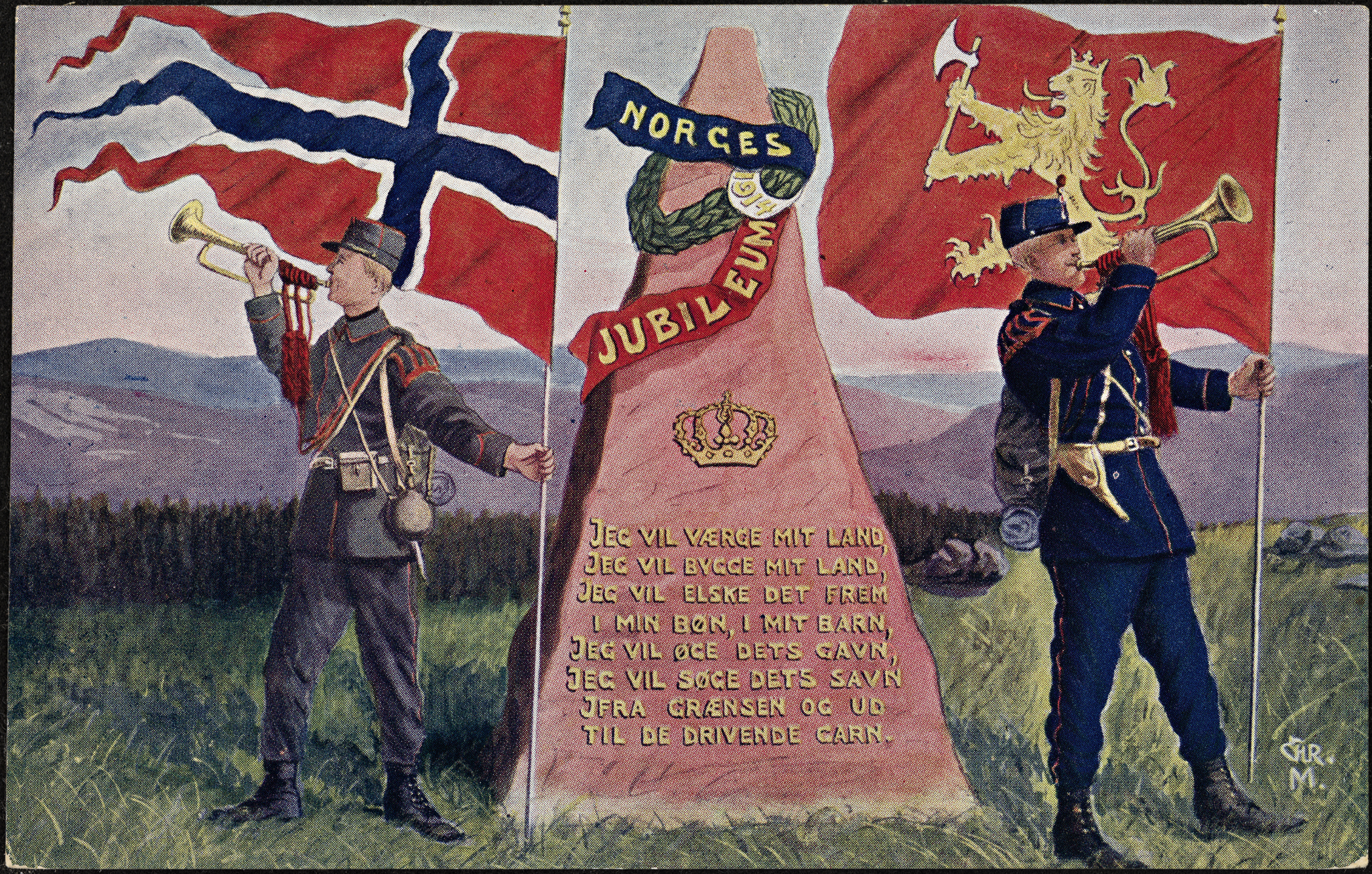 Tittel / Title: Norges 1914 Jubileum Beskrivelse / Description: Postkort. Tekst: "Jeg vil værge mit land" av Bjørnstjerne Bjørnson. Kunstner / Artist: Christian Magnus Utgiver / Publisher: C. A. Erichsen (Christiania) Utgitt / Published: 1914 Eier / Owner Institution: Nasjonalbiblioteket / National Library of Norway Lenke / Link: Bildesignatur / Image Number: blds_05727